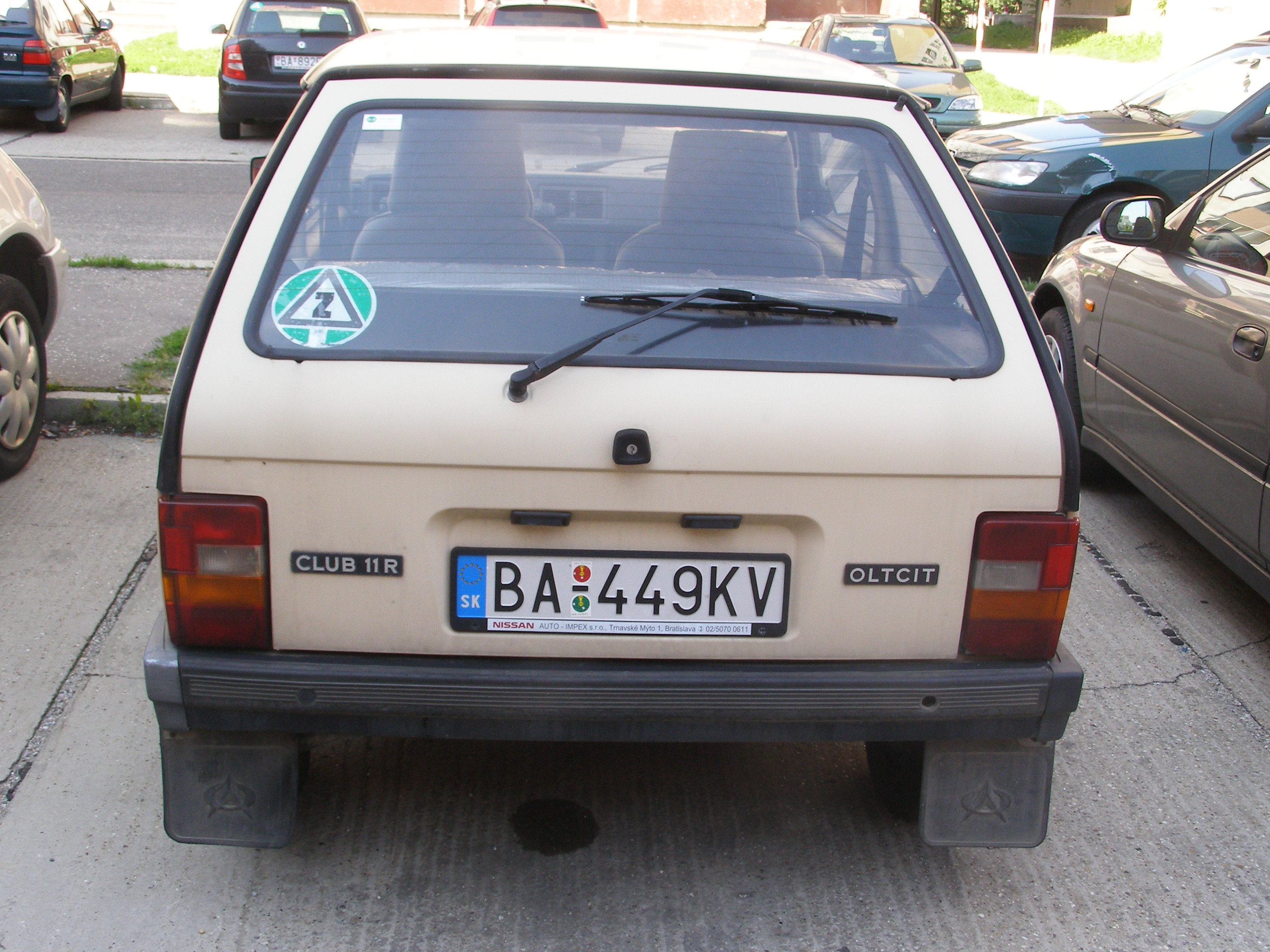 Oltcit Club 11 R in Bratislava